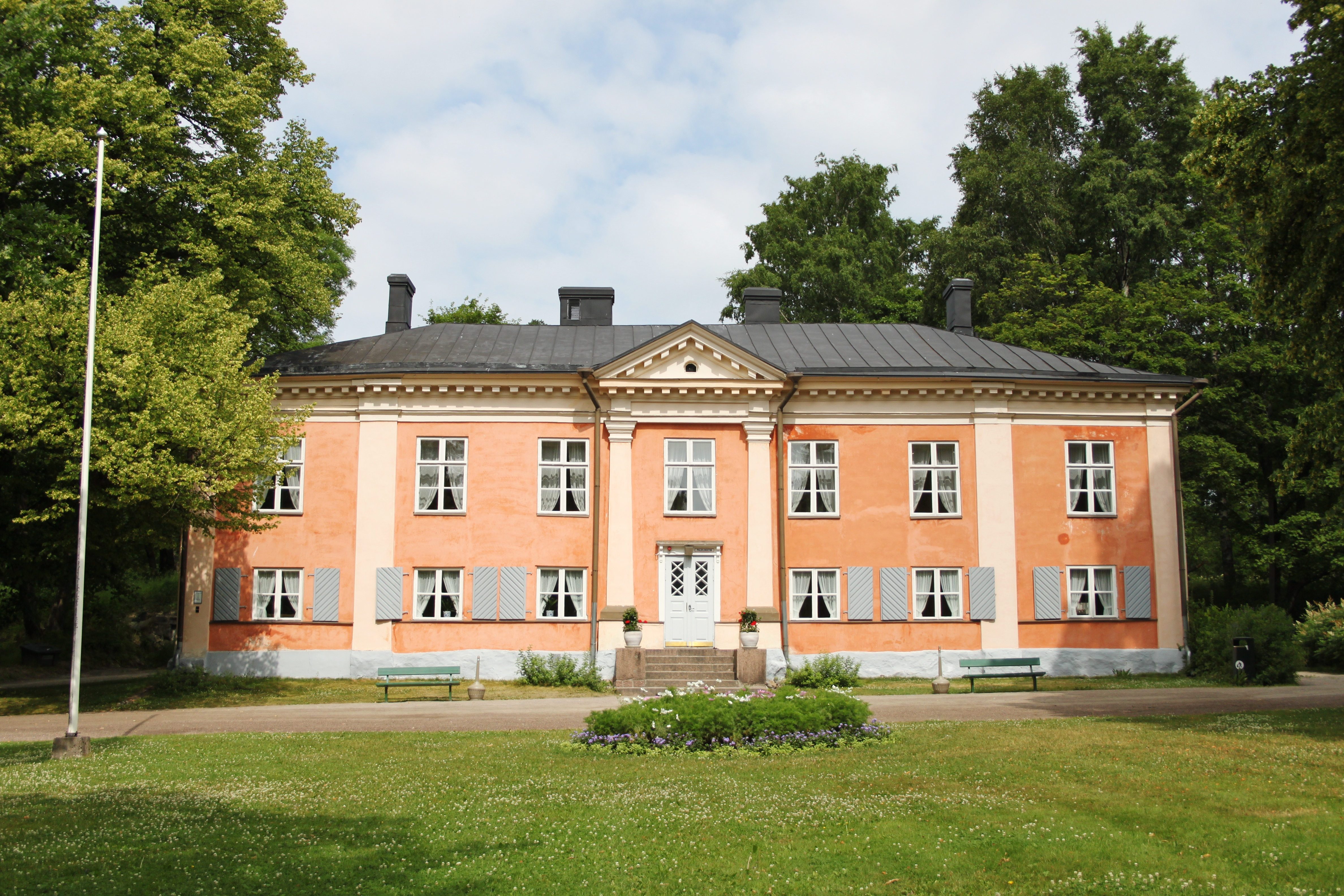 Kulosaari Manor, Kulosaari, Helsinki. Architecht: Carl Ludvig Engel. Built in 1810s